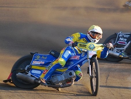 Daniel Nermark in season 2013.